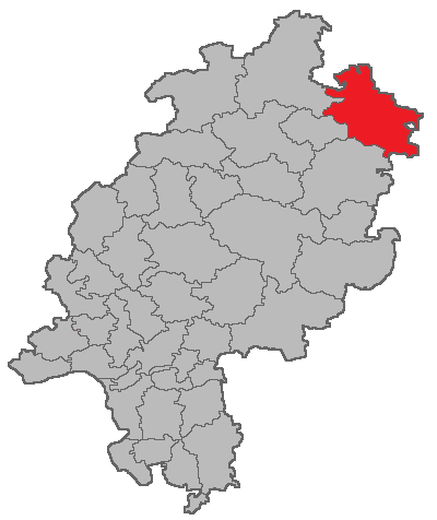 Map of the district court Eschwege in Hesse